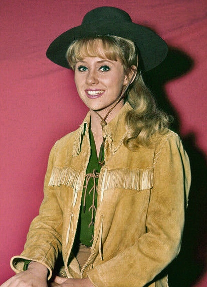 Publicity photo of Melody Patterson